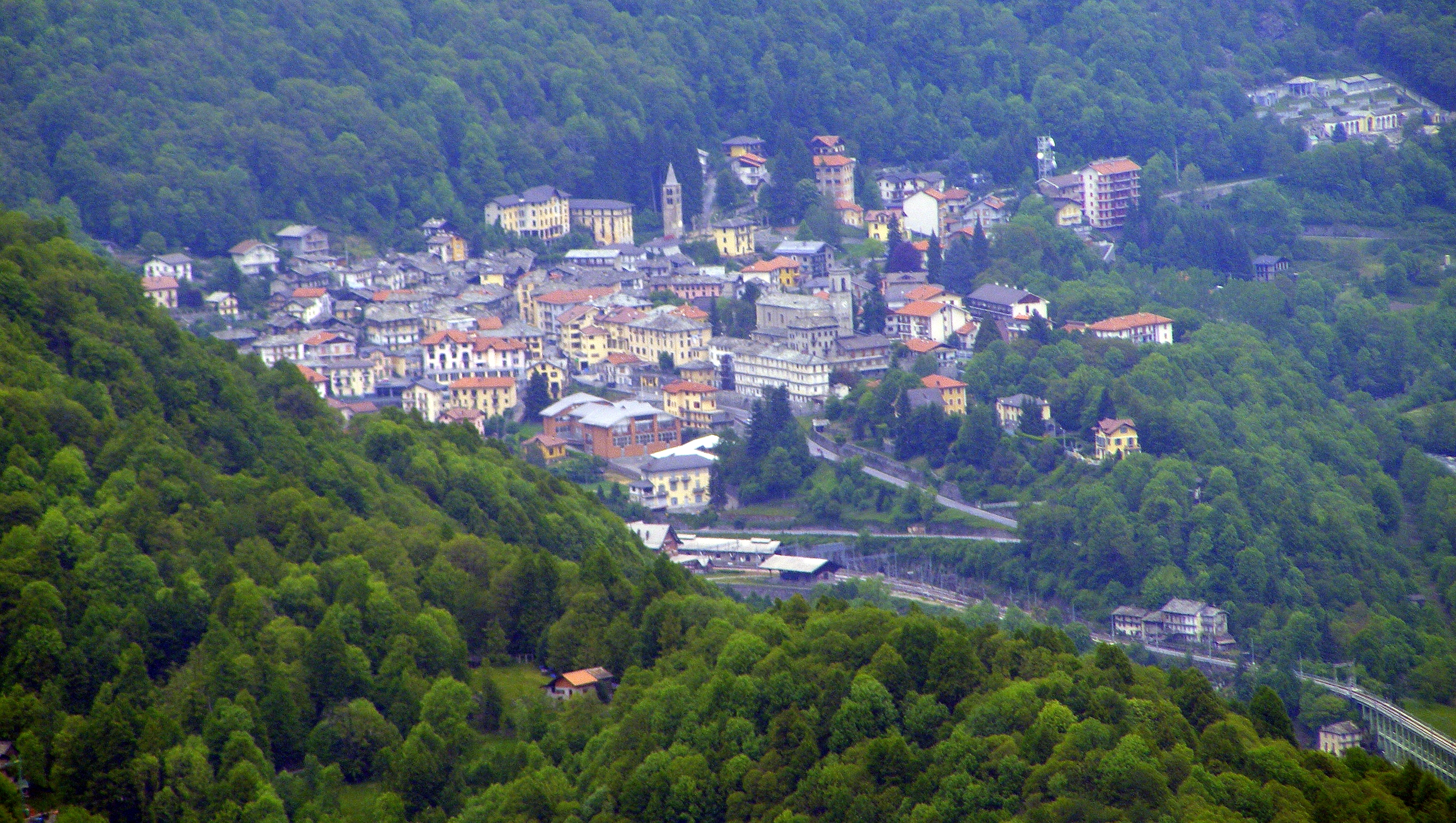 Ceres (TO, Italy): panorama from Monte Crestà (1.173 m)